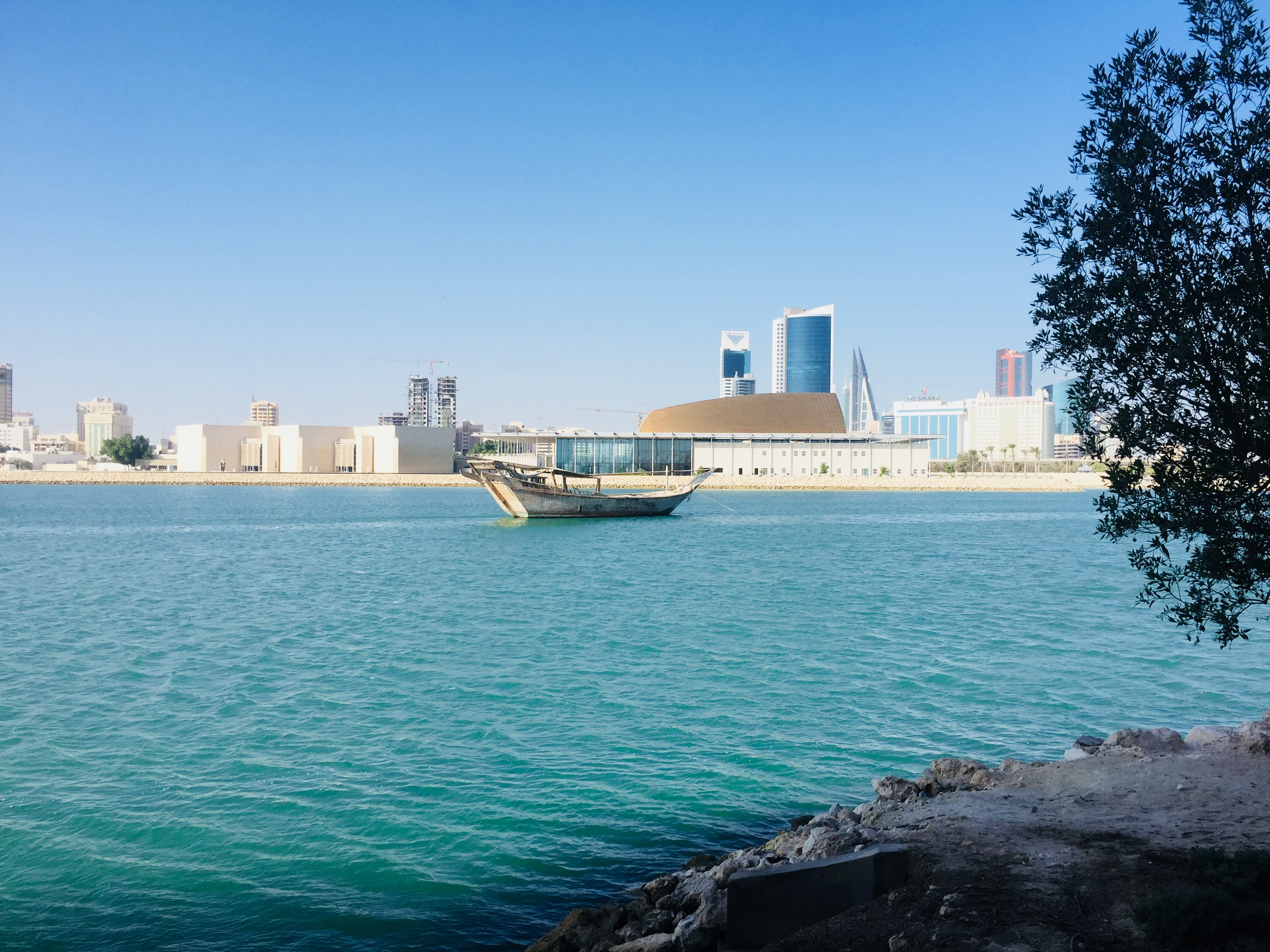 A view from the Novotel on Sheikh Hamad Causeway overlooking the Bahrain National Museum.